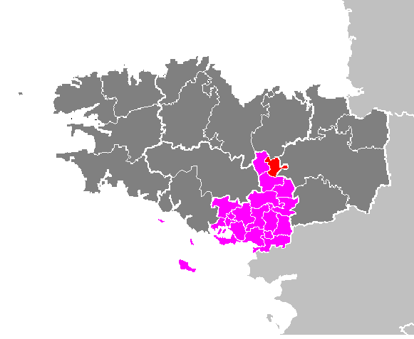 Maps of arrondissements and cantons of France: Arrondissement de Vannes - Canton de Mauron.PNG